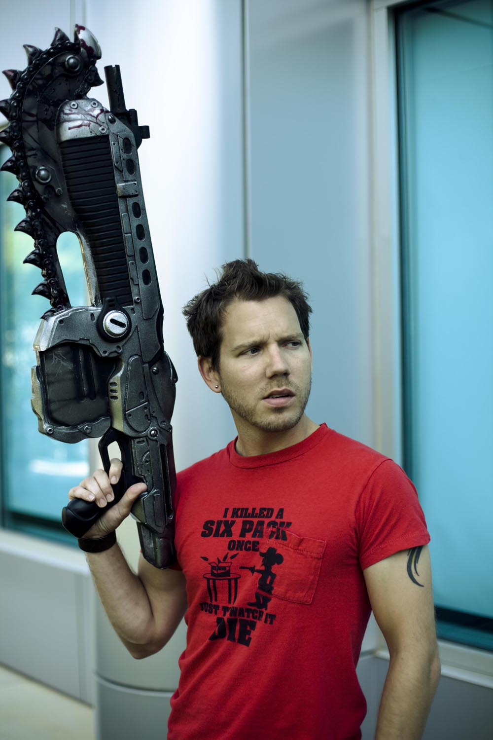 Cliff Bleszinski with a Cog Lancer prop